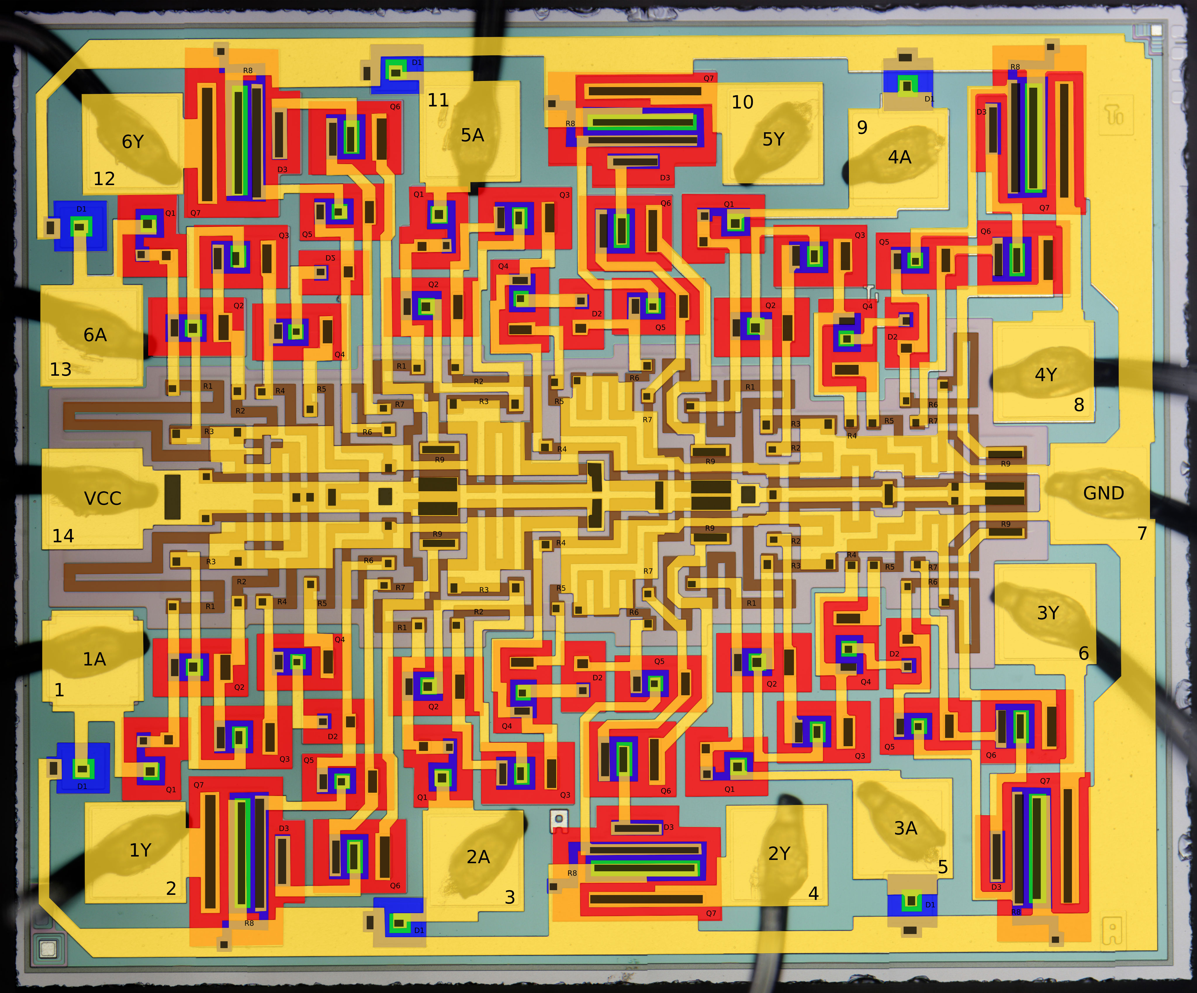 Annotated die photo of the Texas Instruments 5414 chip, datecode 0410